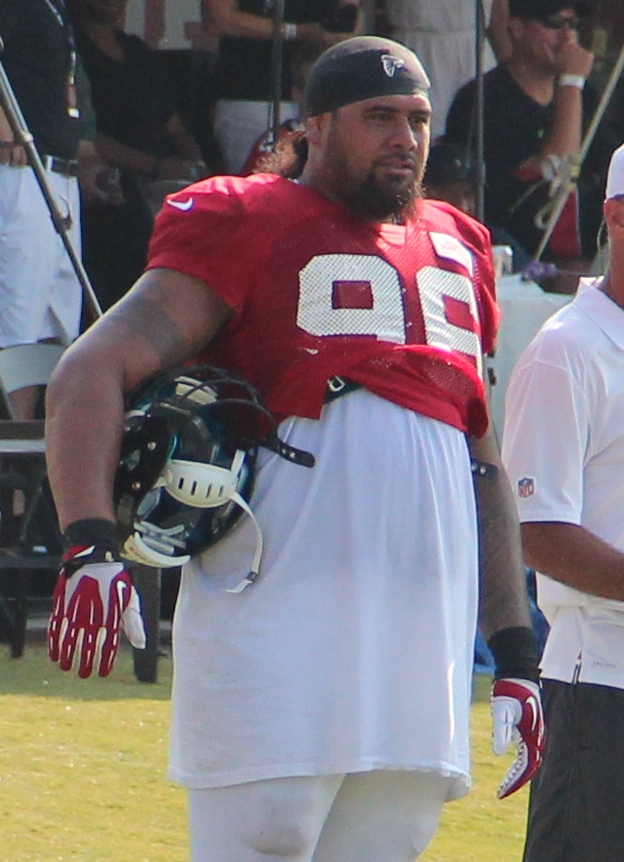 Paul Soliai in 2014